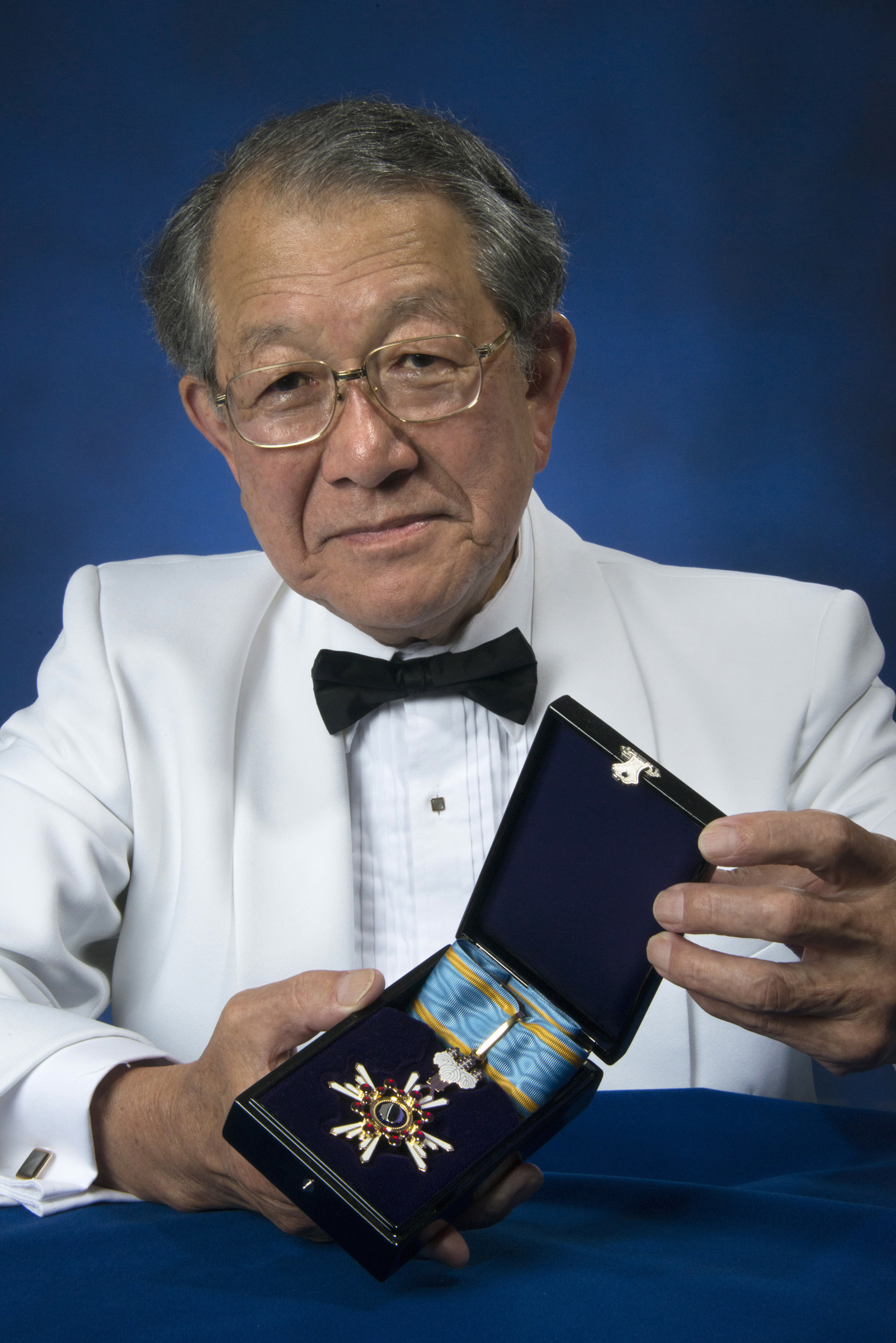 Satoshi Ozaki, Senior Scientist Emeritus of the Brookhaven National Laboratory, was given the Order of the Sacred Treasure, Gold Rays with Neck Ribbon from Fumio Iwai, Acting Consul-General of Japan, in New York City, New York State on July 5, 2013.